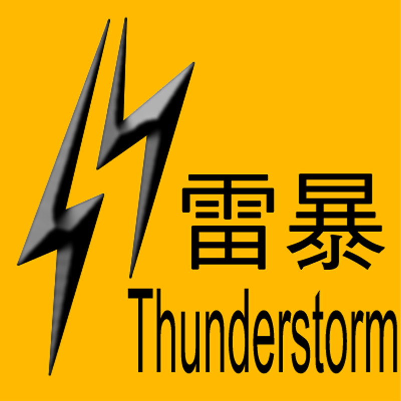 Thunderstorm Warning